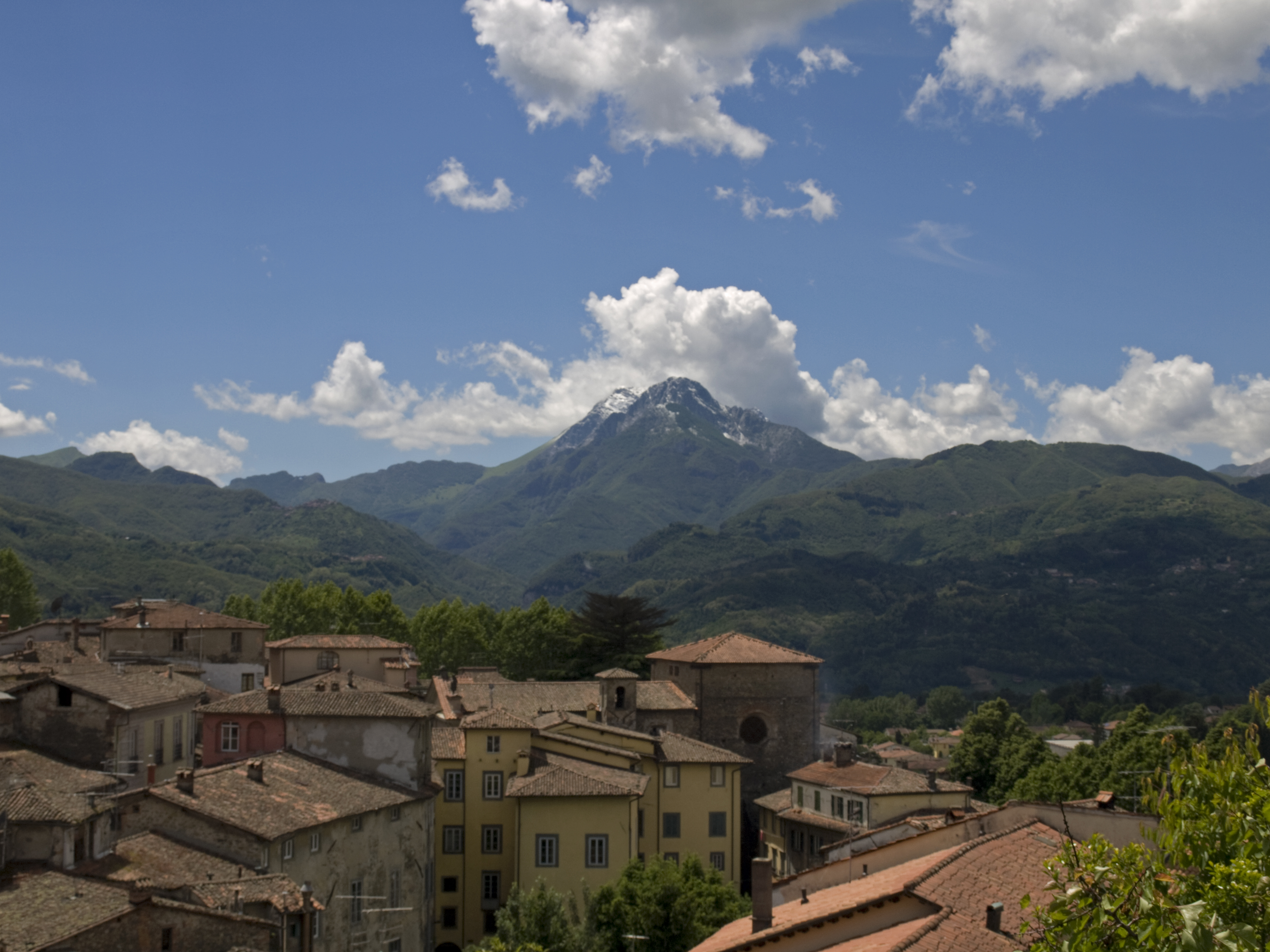 Barga, panorama of the old town taken in the southwest direction